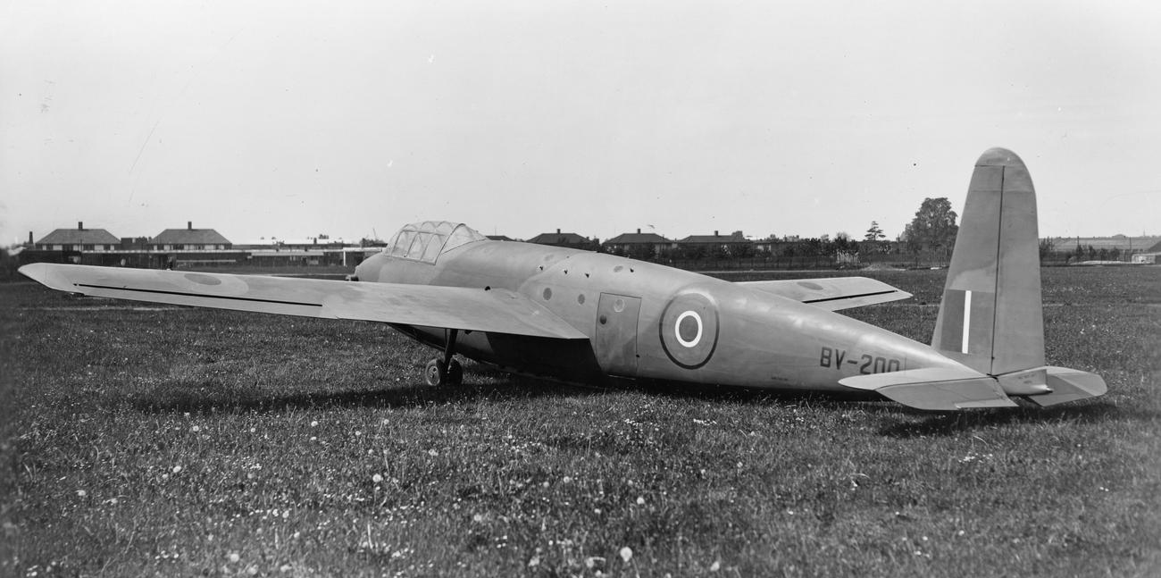 General Aircraft Hotspur Mk 11